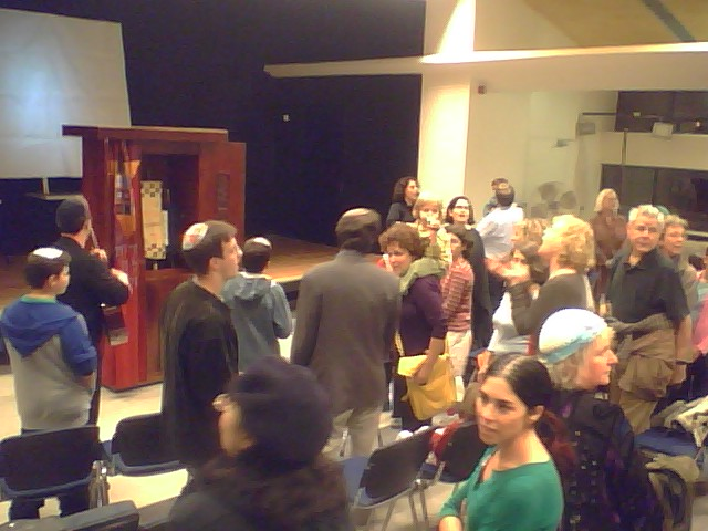 Jerusalem - Returning the Torah in the "Shirah Chadashah" Synagogue.